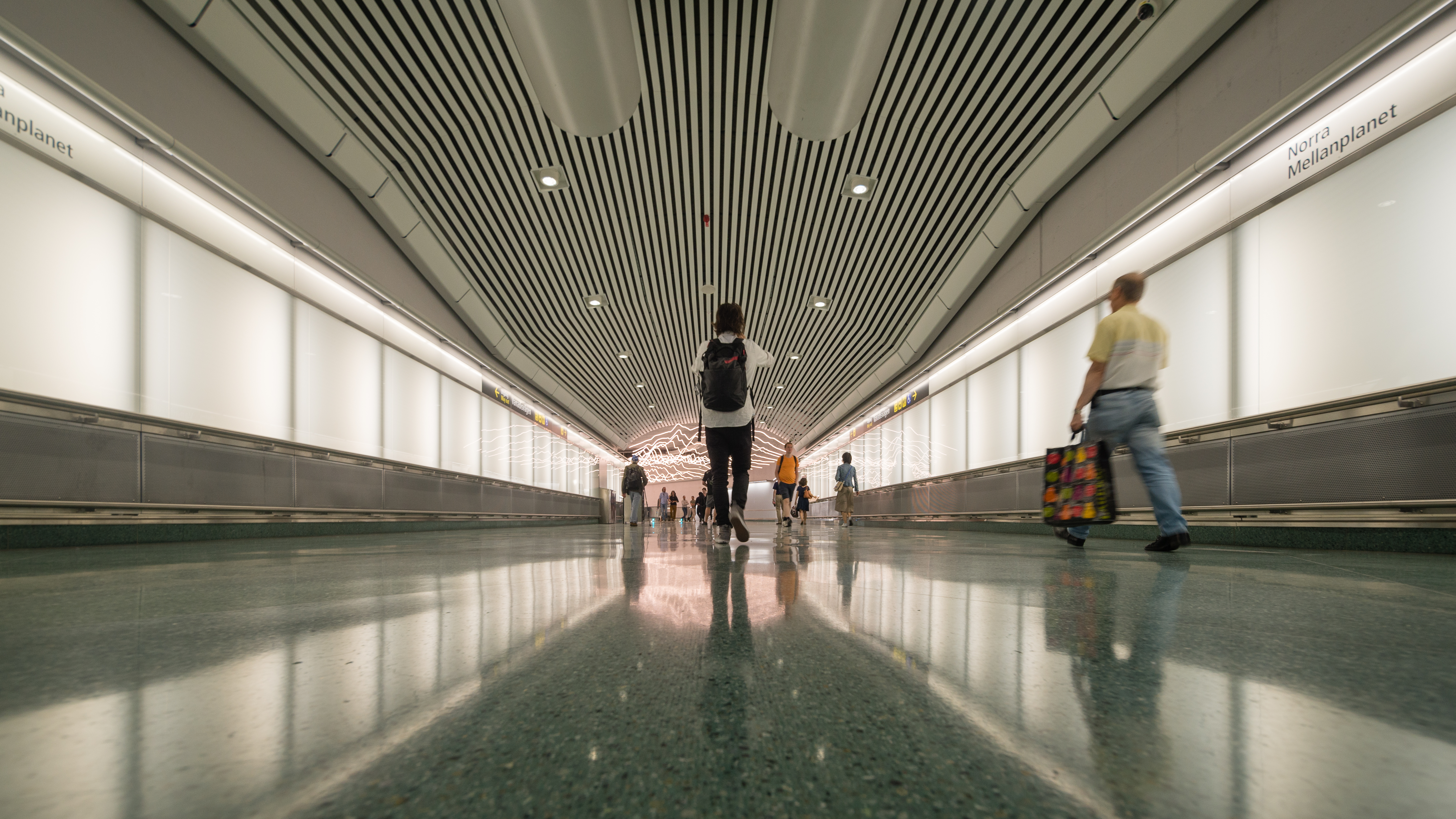 Odenplan commuter train station. Stockholm, Sweden